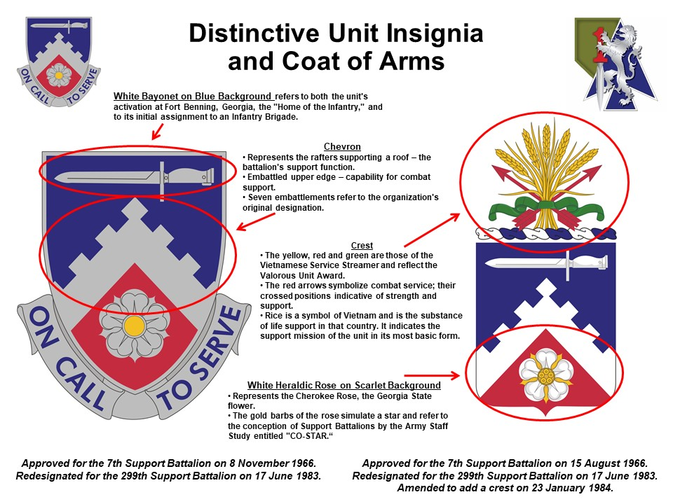 Symbolism break down for the 299 crest